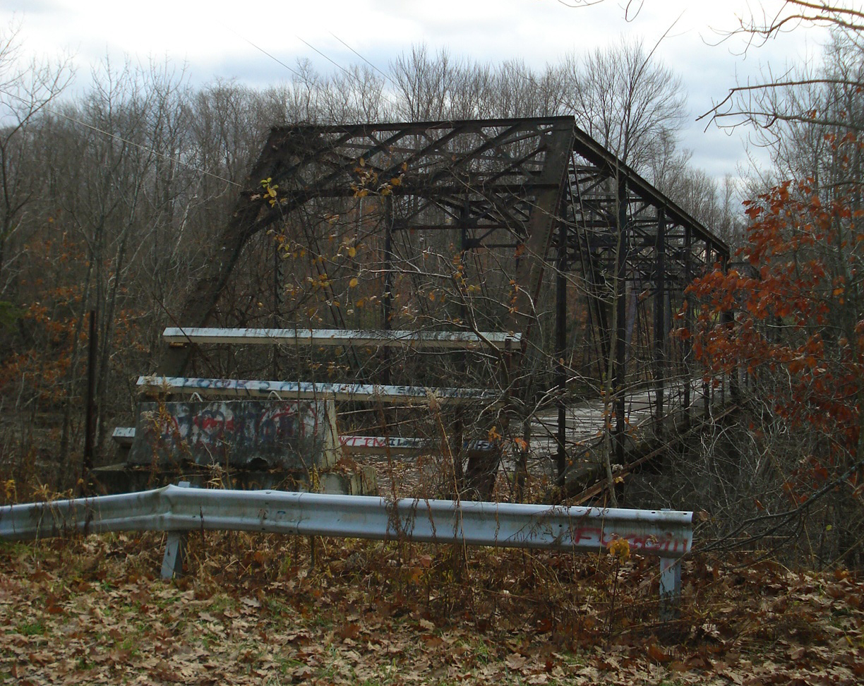 Stillwater Bridge over the Salmon River in November of 2008.